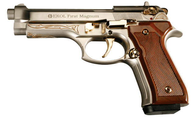 Firat Magnum SATEN GOLD